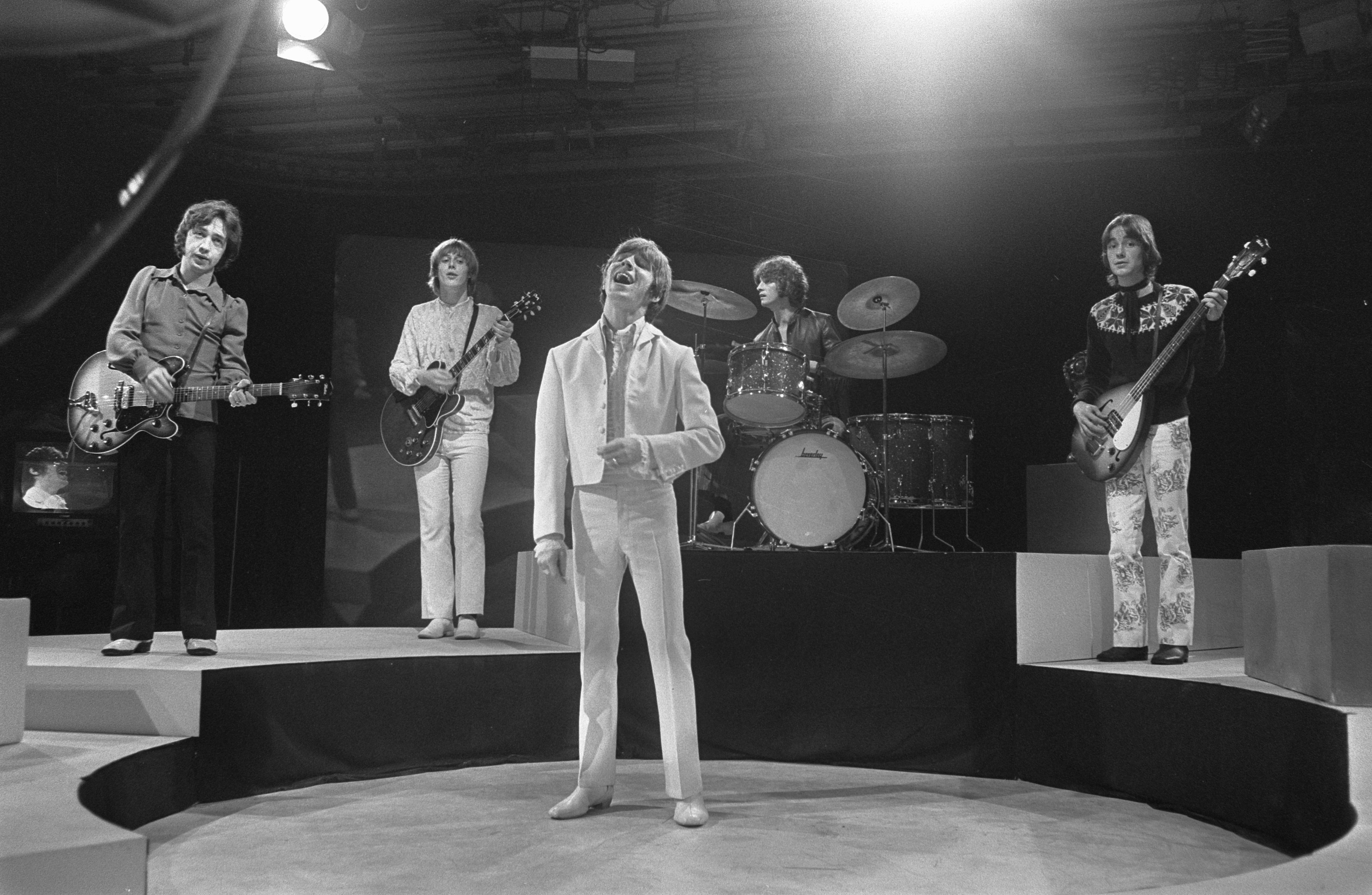 The Easybeats (VARA TV, The Netherlands), 13 August 1968